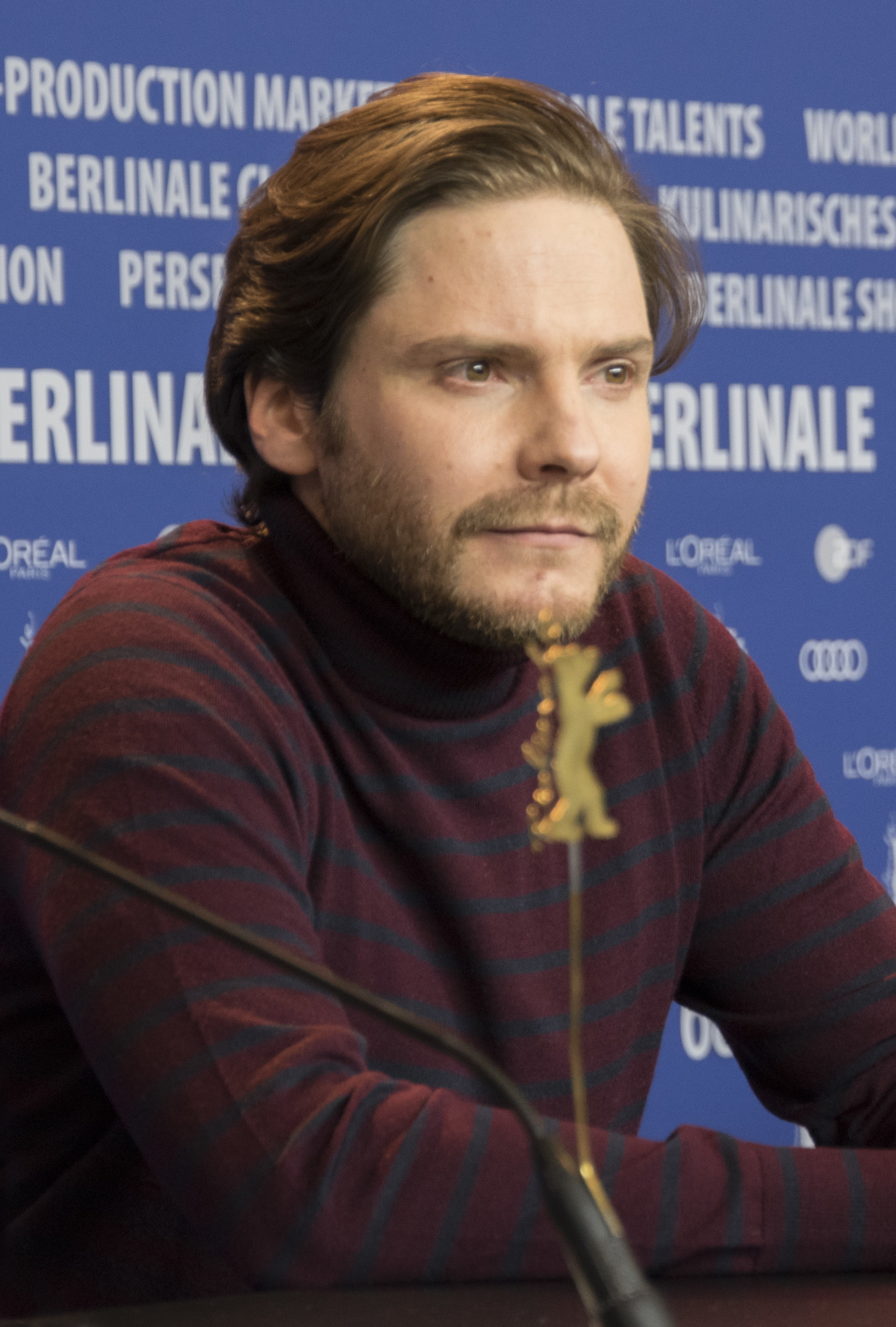 Press conference of 7 Days in Entebbe at Berlinale 2018. Daniel Brühl, Rosamund Pike, Omar Berdouni